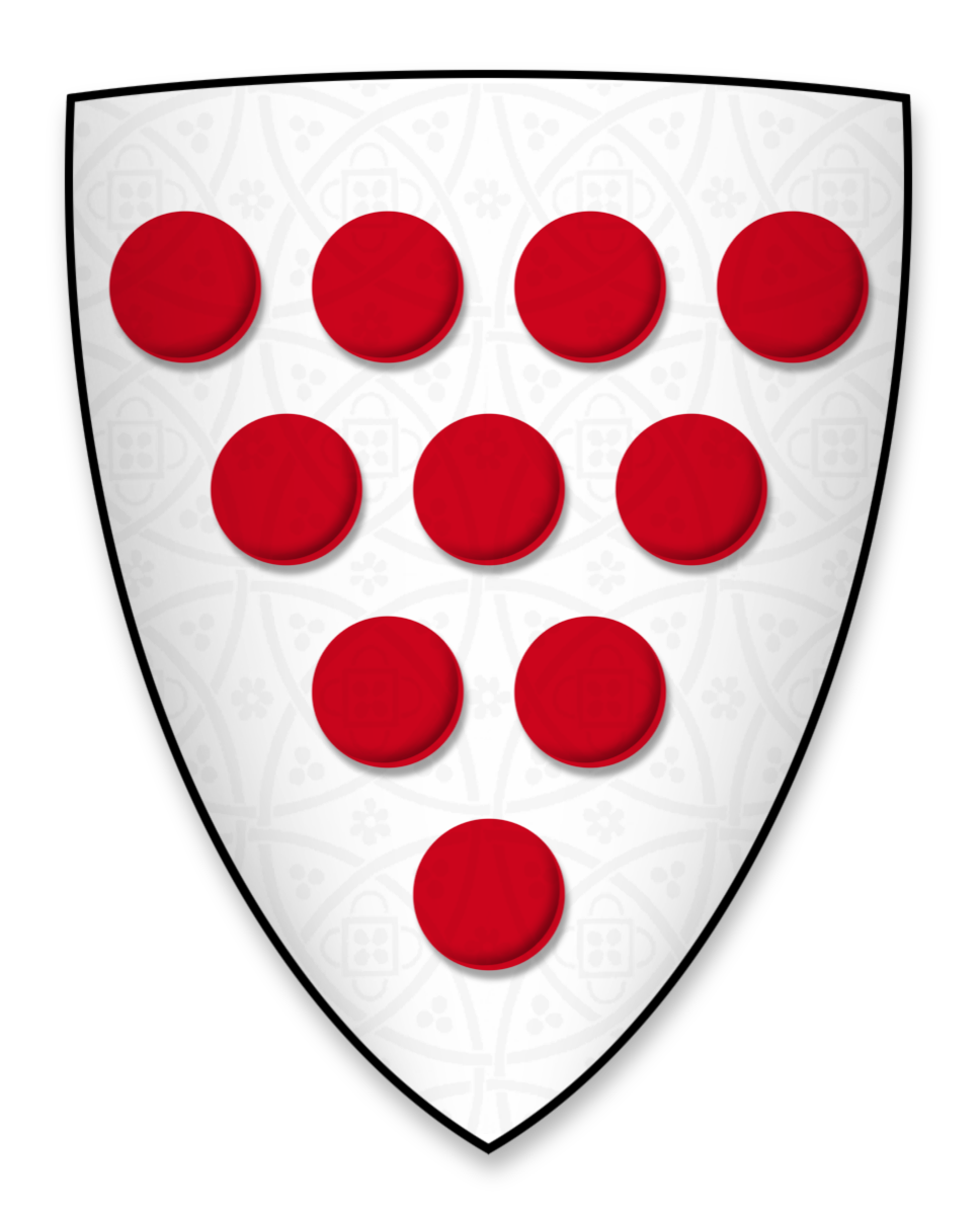 Arms displayed by Walter de Gray, Bishop of Worcester, at the signing of Magna Charta